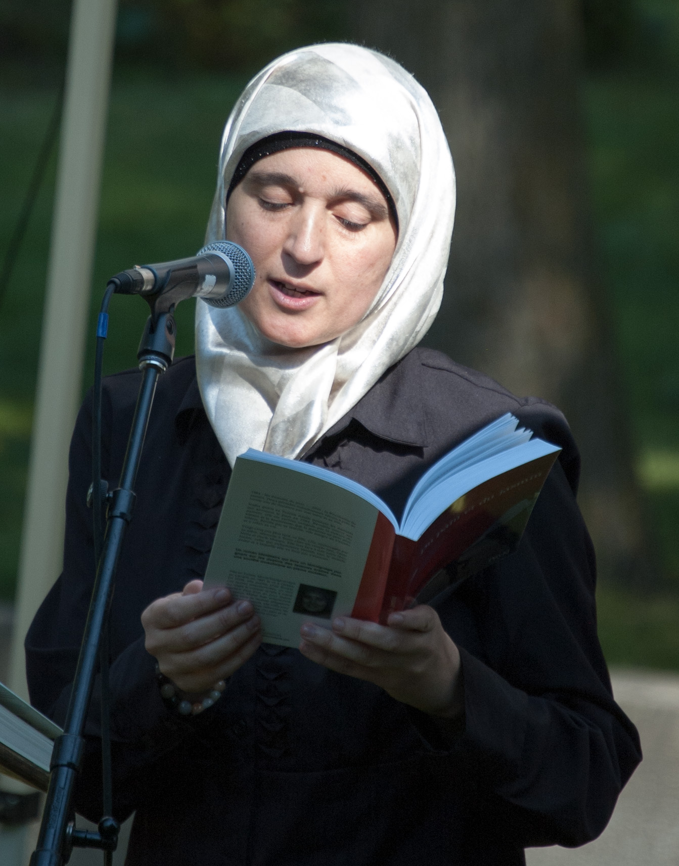 Monia Mazigh at the Eden Mills Writer's Festival in 2017